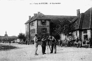 Bitche instruction